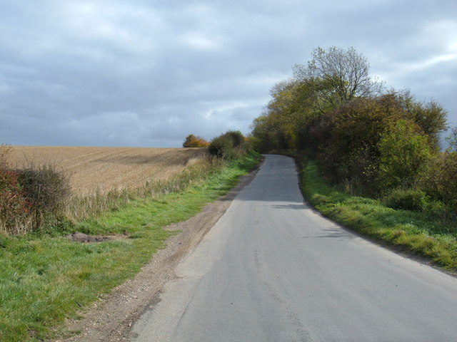 Minor Road Towards Huggate, East Riding of Yorkshire, England.